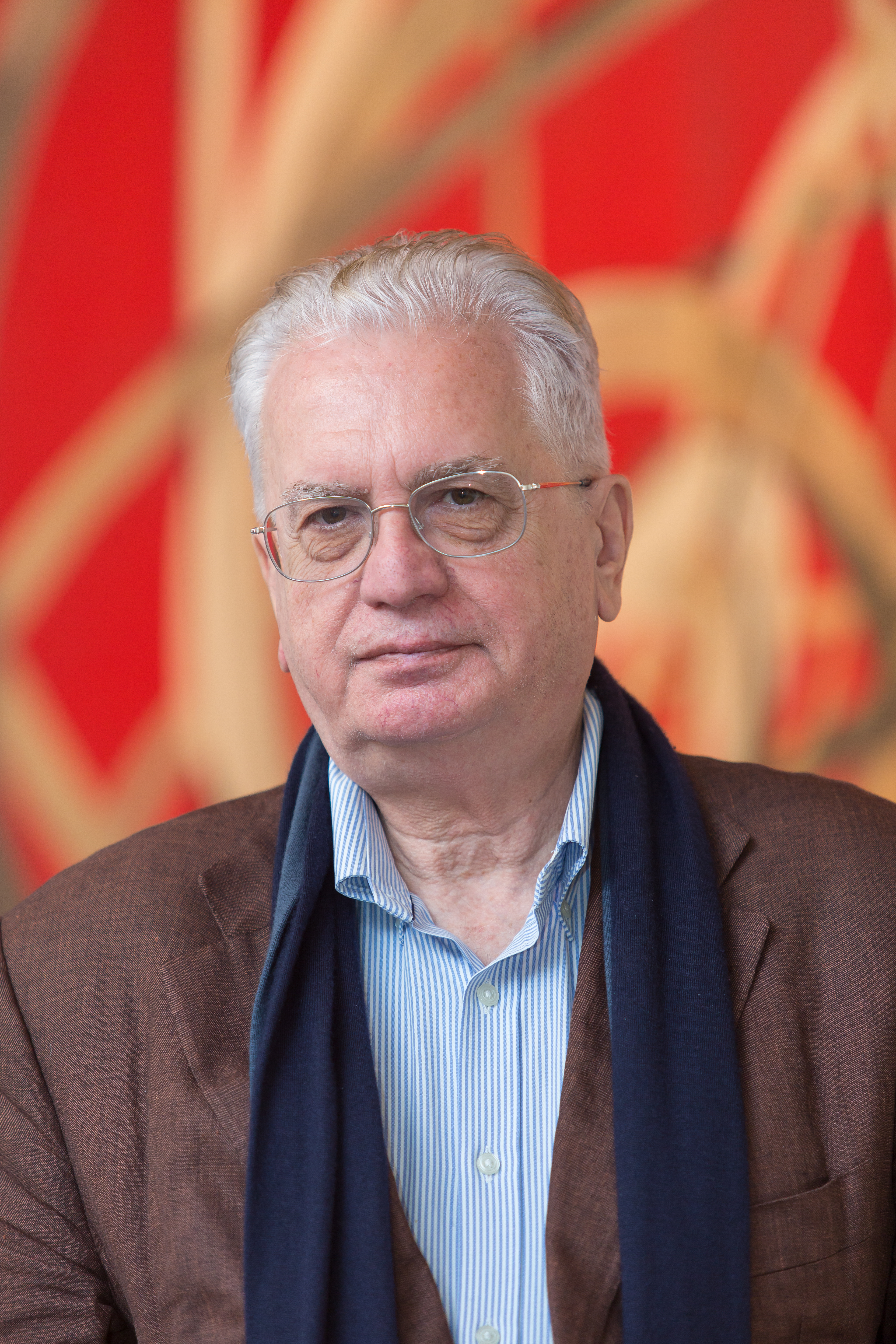 Mikhail Piotrovsky2019